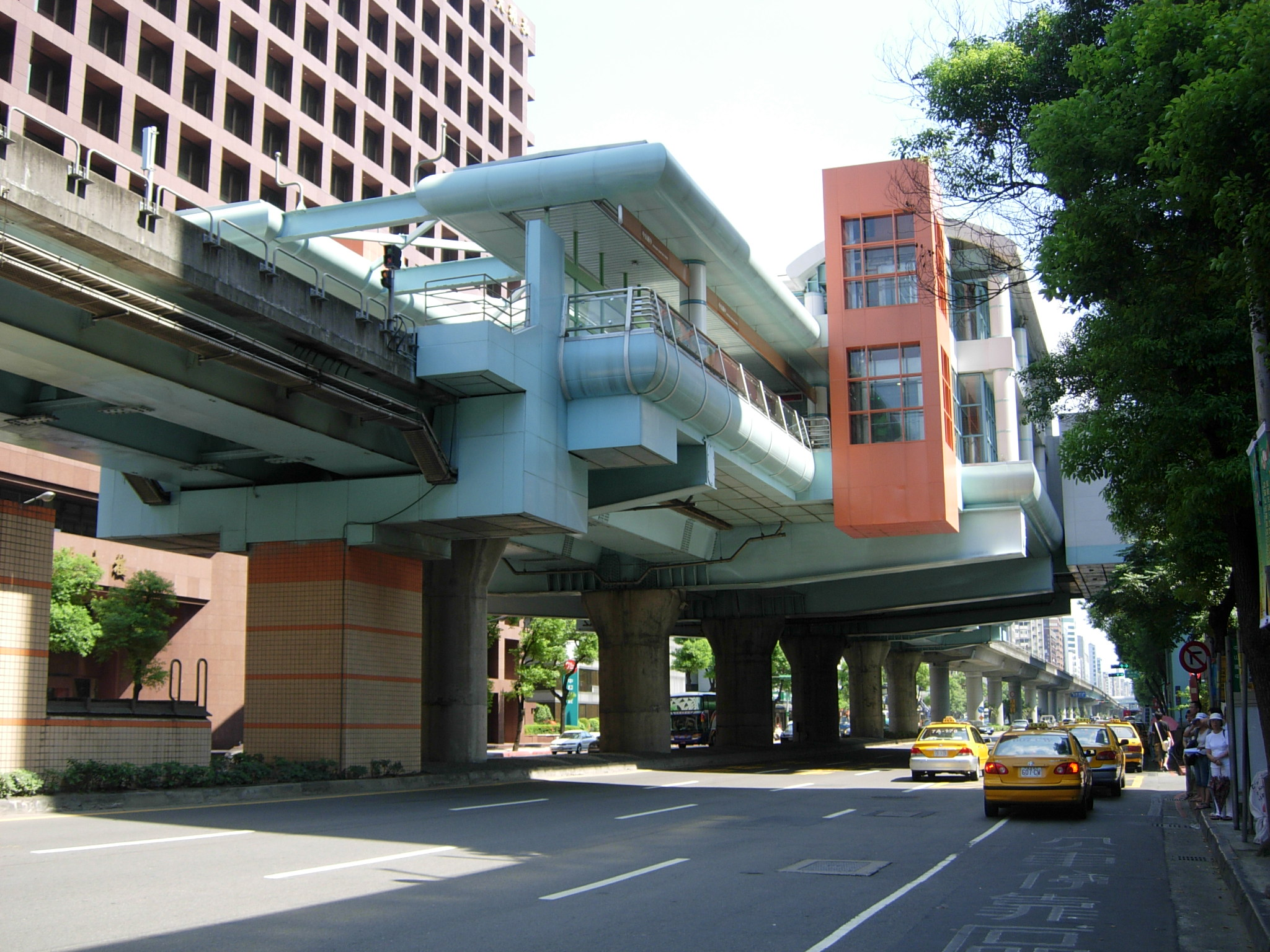 Taipei MRT Jhongshan（Zhongshan）Junior High School Station.